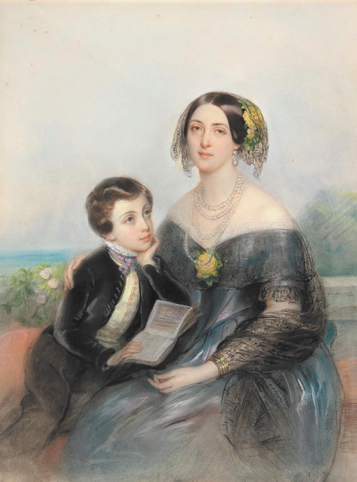 Portrait of Aurore Demidoff-Karamzine with her son, seated on a balcony The sitter, whose maiden name is Stjernvall, was born in Finland in 1808. She became lady-in-waiting of Empress Alexandra Fedorovna the Elder and married Prince Paul Demidoff (1798-1840). Six years after the death of her first husband, she married a Russian officer, Colonel Andrey Karamzin, who died in the Crimean War in 1854. She returned to Finland, where she became a well-known philanthropist until her death in 1902. The child in the present lot is her only child, Prince Paul Demidoff (1839-1885). Sale 1847 — The House Sale 20 - 21 June 2007 New York, Rockefeller Plaza